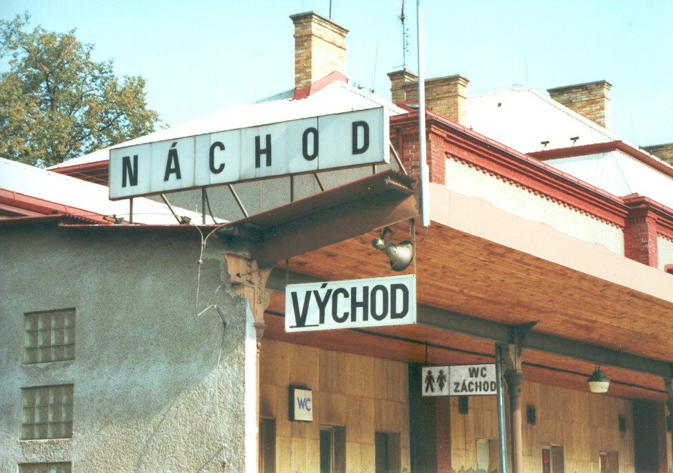 Náchod railway station. Východ = exit. Záchod = lavatory